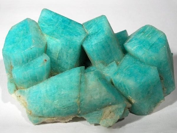 Microcline (Var.: Amazonite) Locality: Pikes Peak, El Paso County, Colorado, USA (Locality at ) Size: 5.5 x 3.1 x 2.5 cm. Exemplary specimen of what are certainly the finest and best known Amazonites in the world. This cluster has the rich blue color so highly sought after, but not often found. On top of that, the luster is excellent. The largest crystal is almost 2 cm across. Ex. Steve Smale Collection.